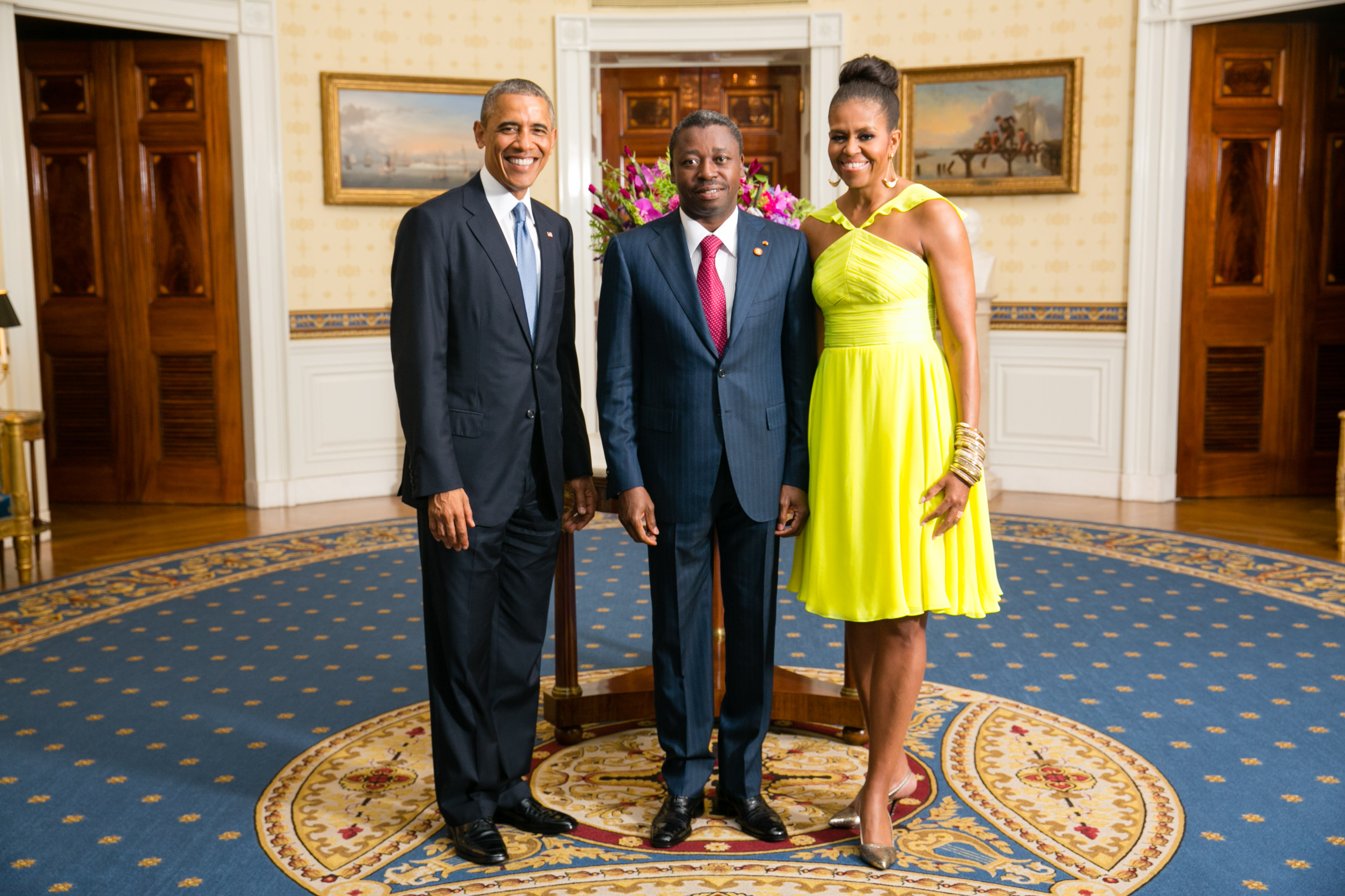 President Barack Obama and First Lady Michelle Obama greet His Excellency Faure Essozimna Gnassingbe, President of the Republic of Togo, in the Blue Room during a U.S.-Africa Leaders Summit dinner at the White House, Aug. 5, 2014. [Official White House Photo by Amanda Lucidon] This official White House photograph is in the public domain from a copyright perspective, so while restrictions such as personality or privacy rights may apply, in general, manipulations are allowed.